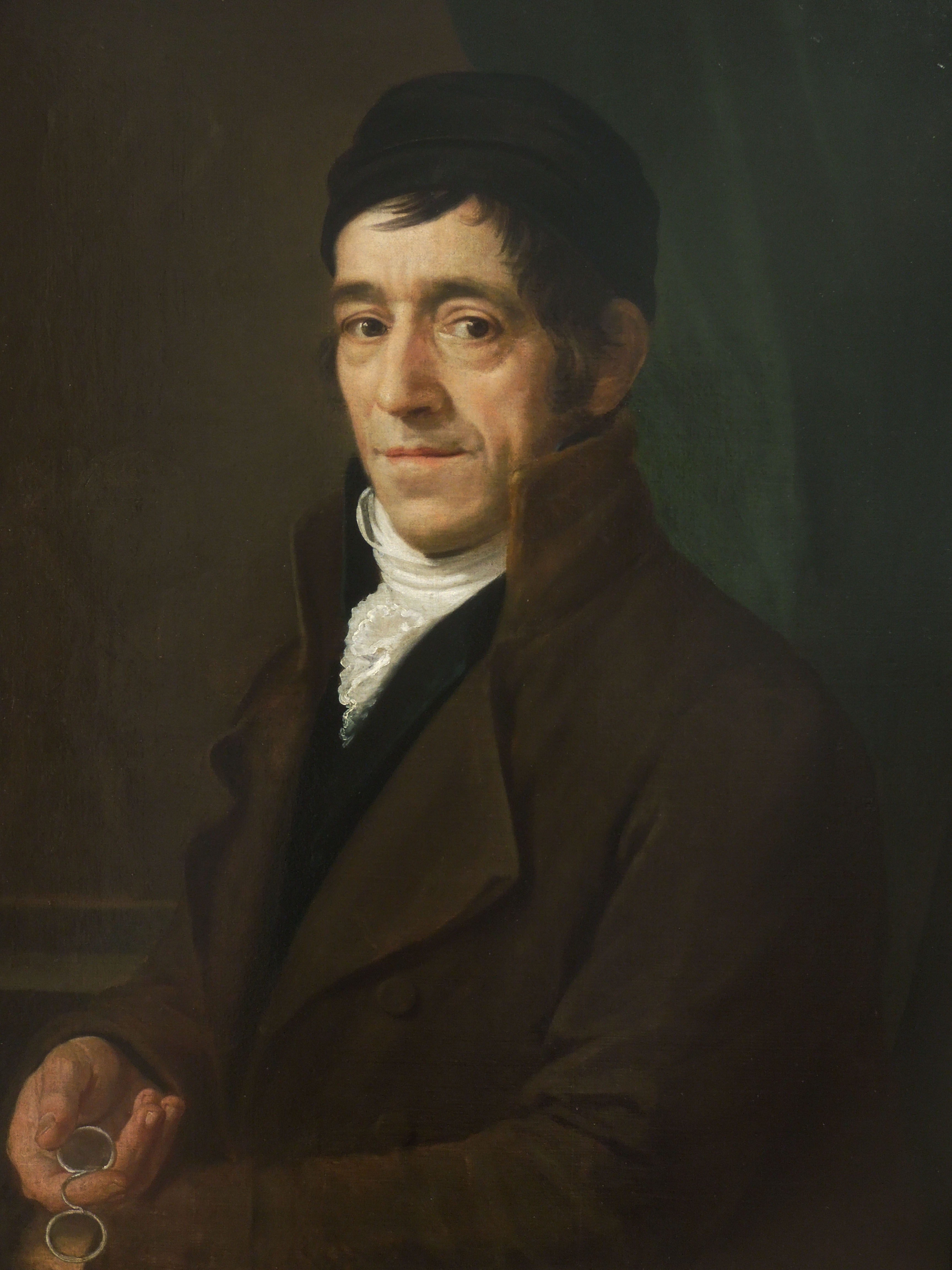 Portrait of Josef Bergler